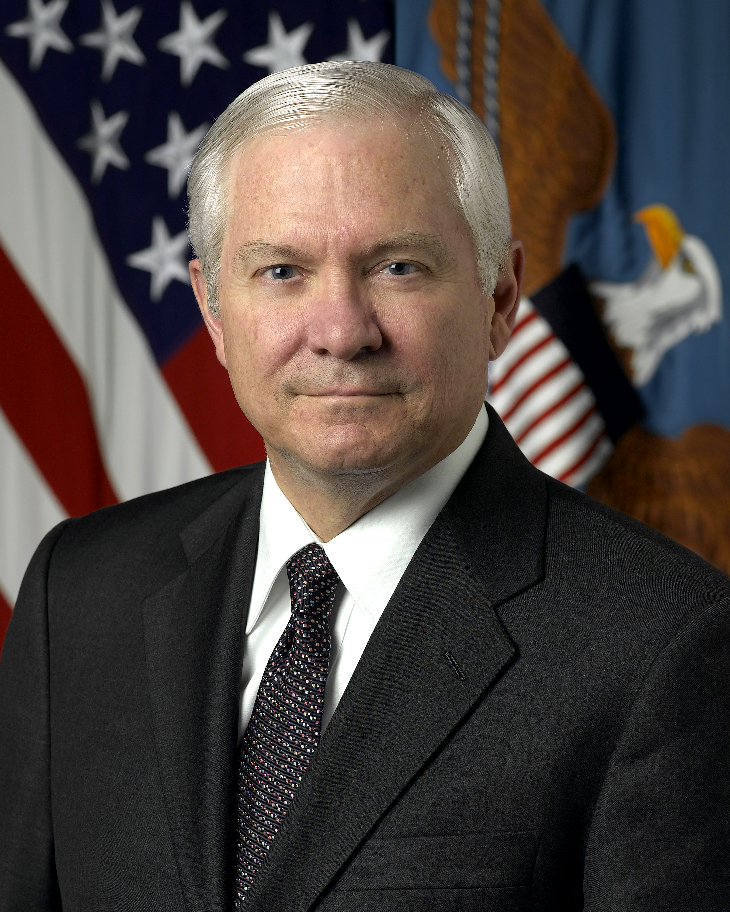 Official portrait of United States Secretary of Defense Robert Gates